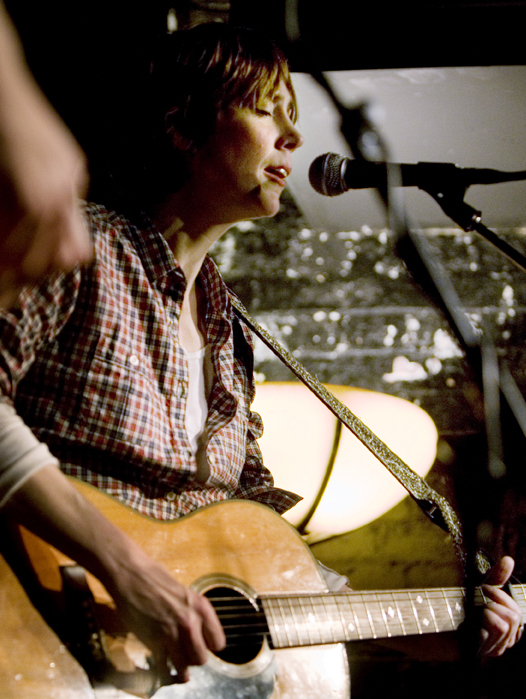 Beth Orton plays the Mojo club night at the Slaughtered Lamb, Clerkenwell